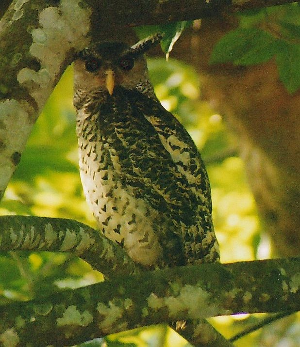 Spot-bellied Eagle Owl from the Biligirirangan Hills